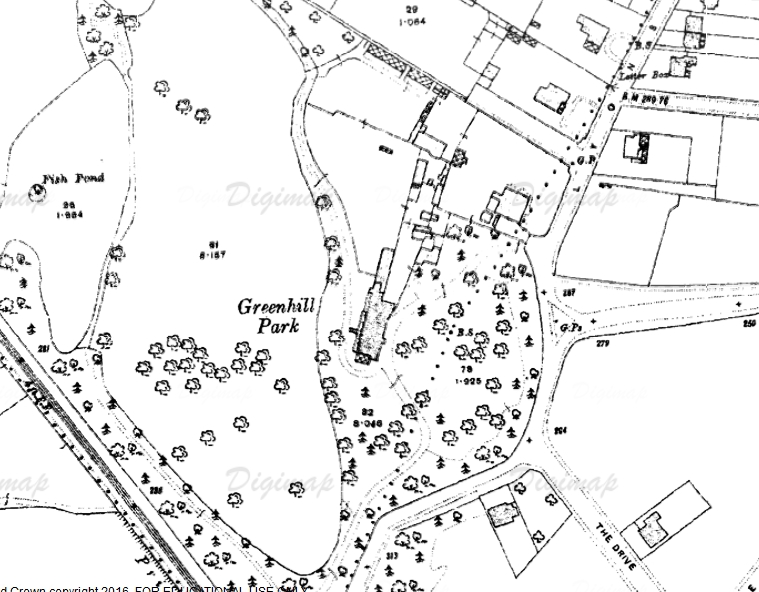 Greenhill Park and house on 1910s Ordnance Survey map.